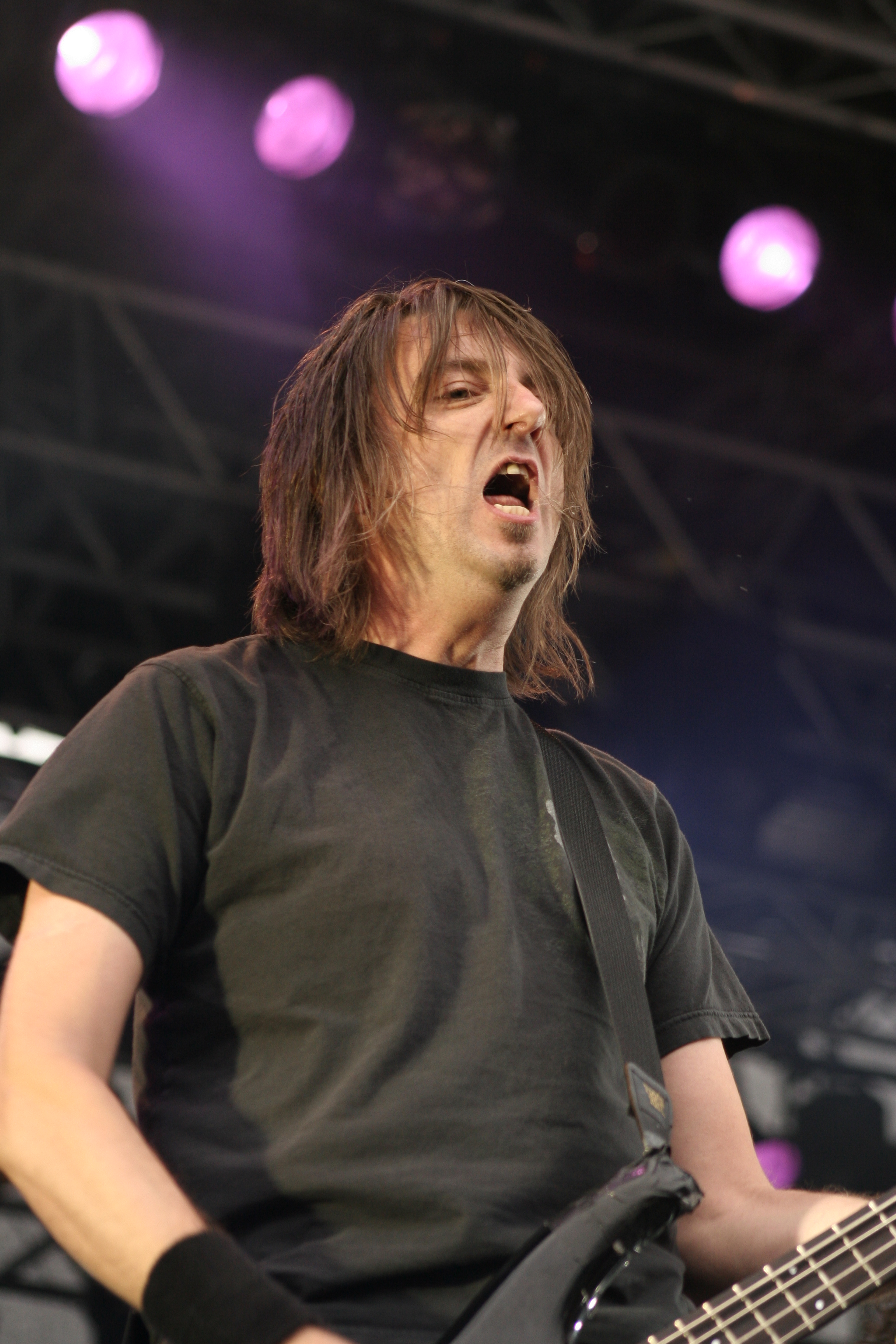 Bassist Mark Clayden from Pitchshifter performing at